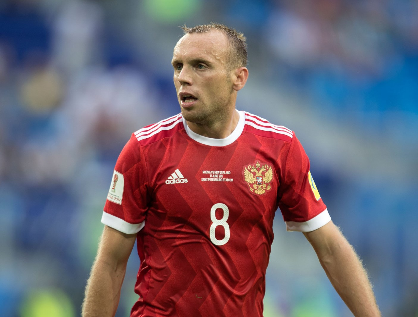 Denis Glushakov